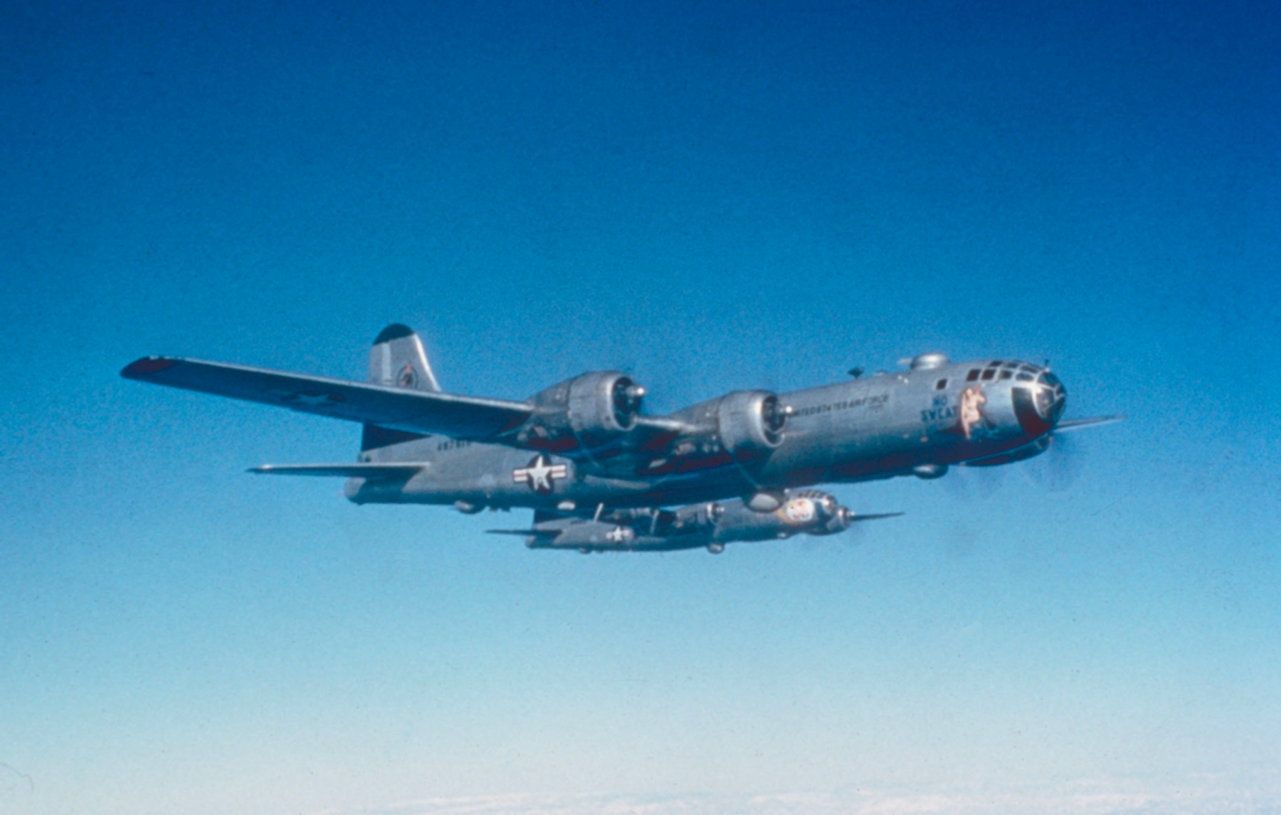 Two U.S. Air Force Boeing B-29 Superfortress bombers from the 29th and 30th Bomb Squadron, 19th Bomb Group, during a mission over Korea in 1950. The aircraft in front is B-29-80-BW Serial # 44-87618, nicknamed "No Sweat". The aircraft in the background is "Four-A-Breast" B-29-40-MO Serial Number 44-86323